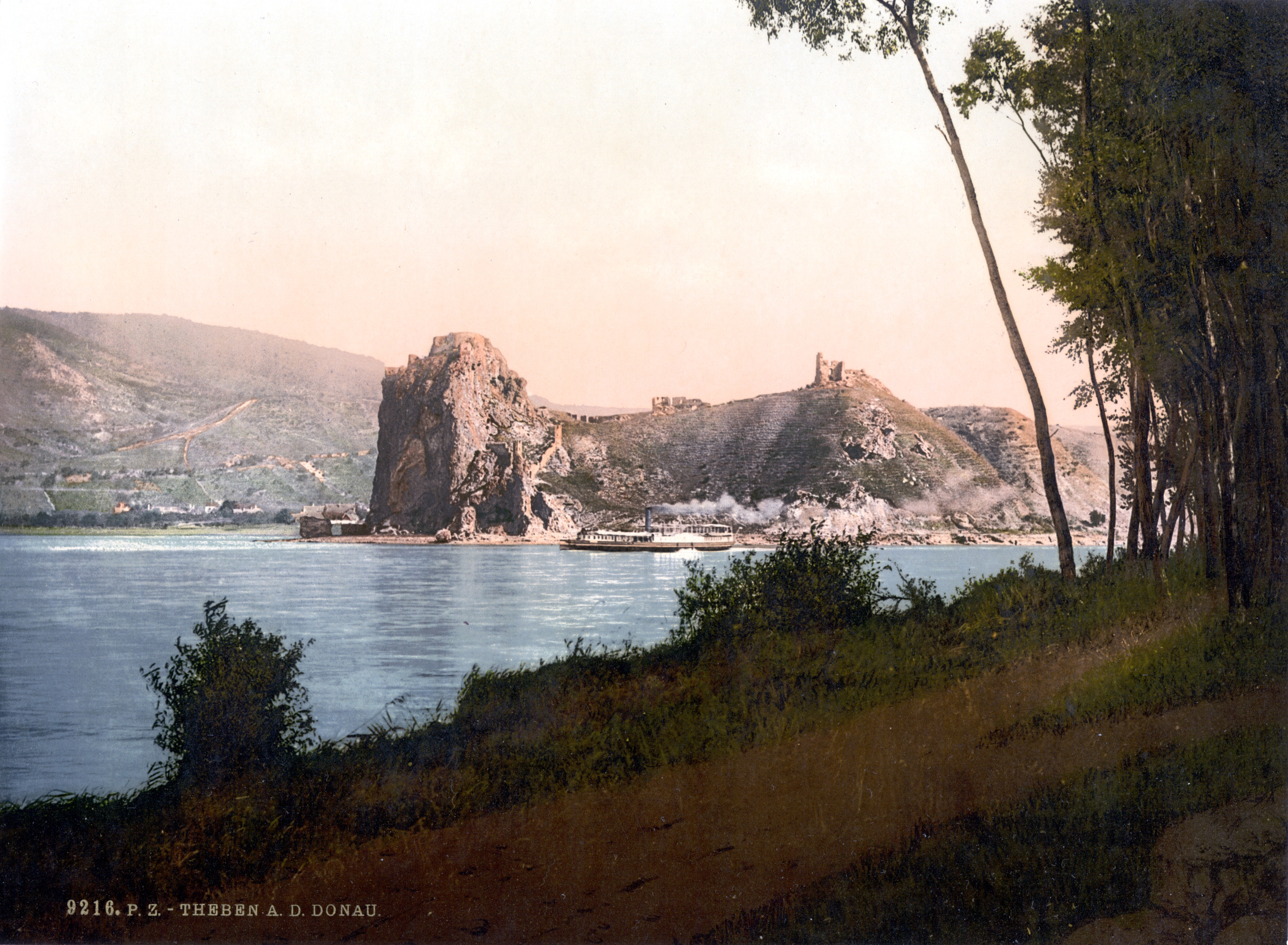 View on the village of "Theben an der Donau" (now "Devín", Slovakia)